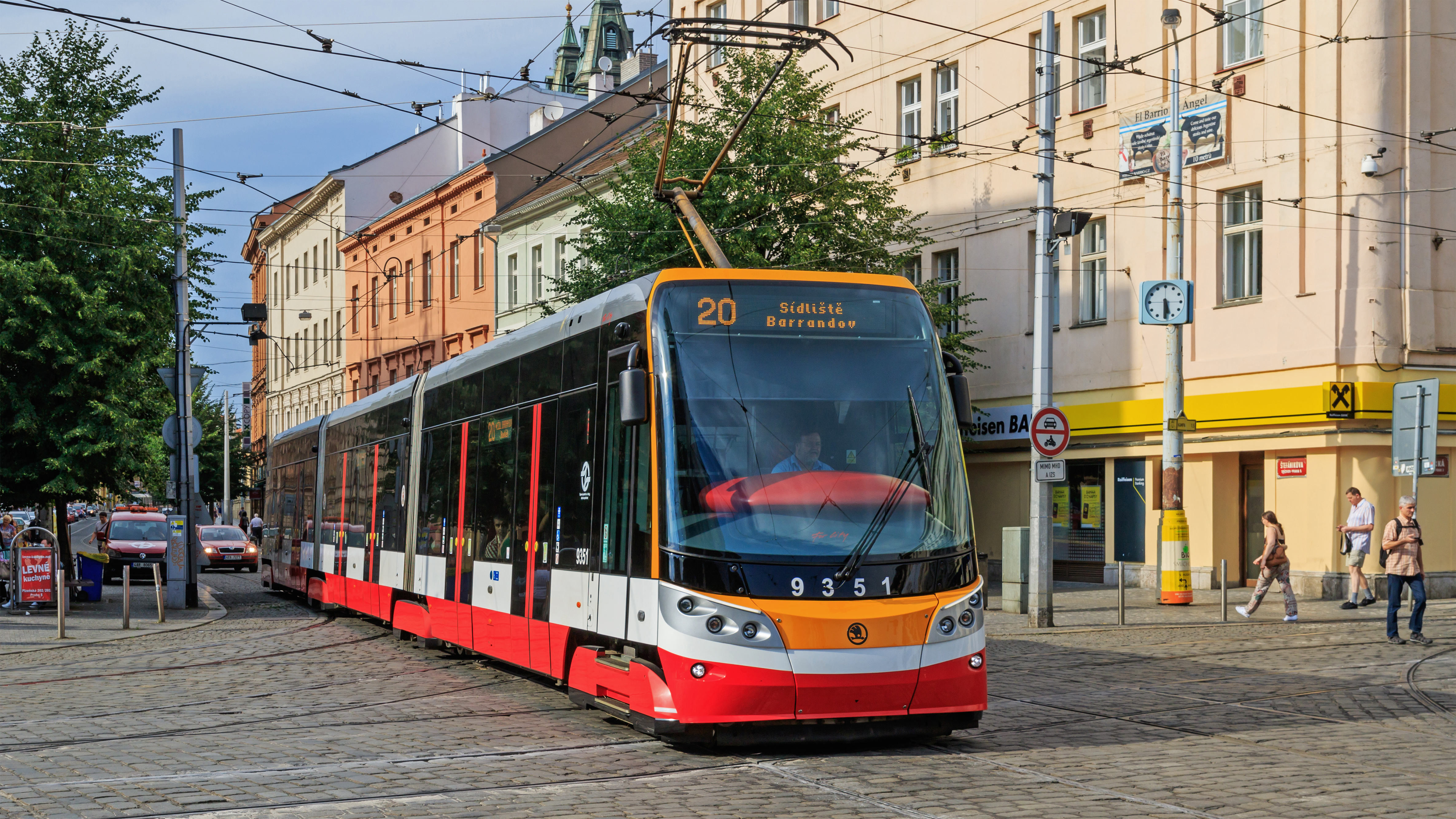 Škoda 15T tram near Anděl metro station in Prague (Czech Republic)